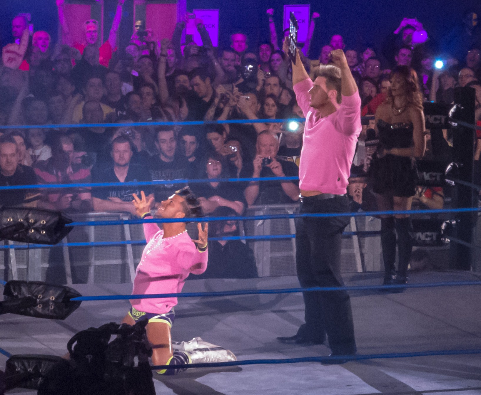 Robbie E and Robbie T. at the Impact! TV Tapings in Wembley, England on January 26, 2013.